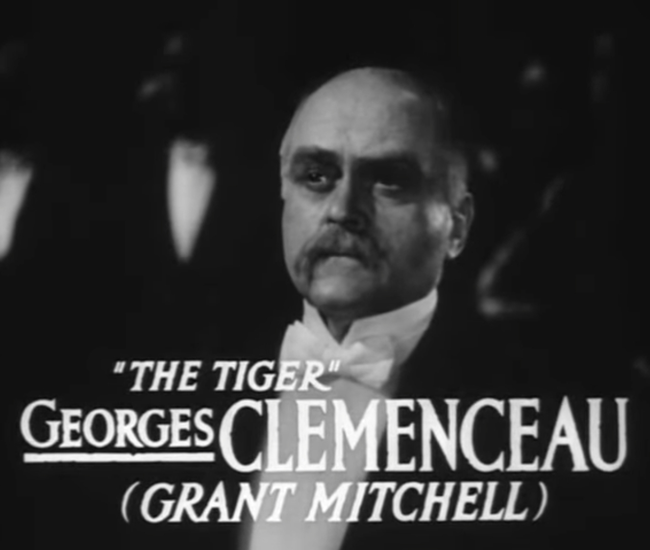 Grant Mitchell in The Life of Emile Zola - trailer (cropped screenshot)